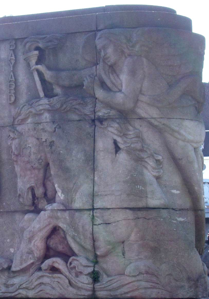 Arches bridge, Liège. Low relief : The horse Bayard